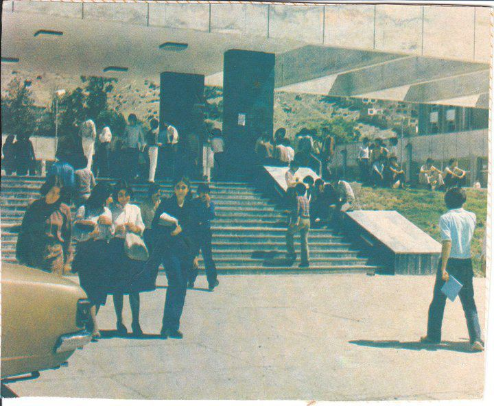 Entrance to the Faculty of Medicine in Kabul, c. 1977